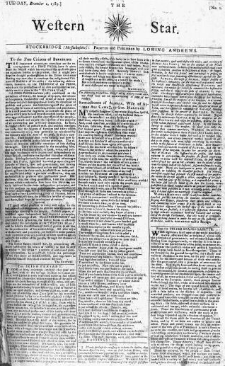 Western Star.; Date: 12-01-1789 (Stockbridge, Massachusetts) Further information: American Antiquarian Society. Catalog.